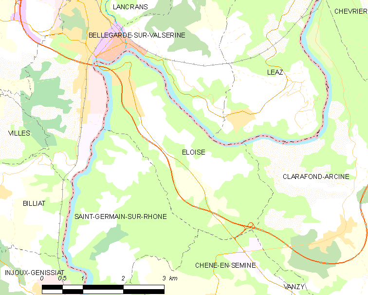 Map of French municipality Éloise